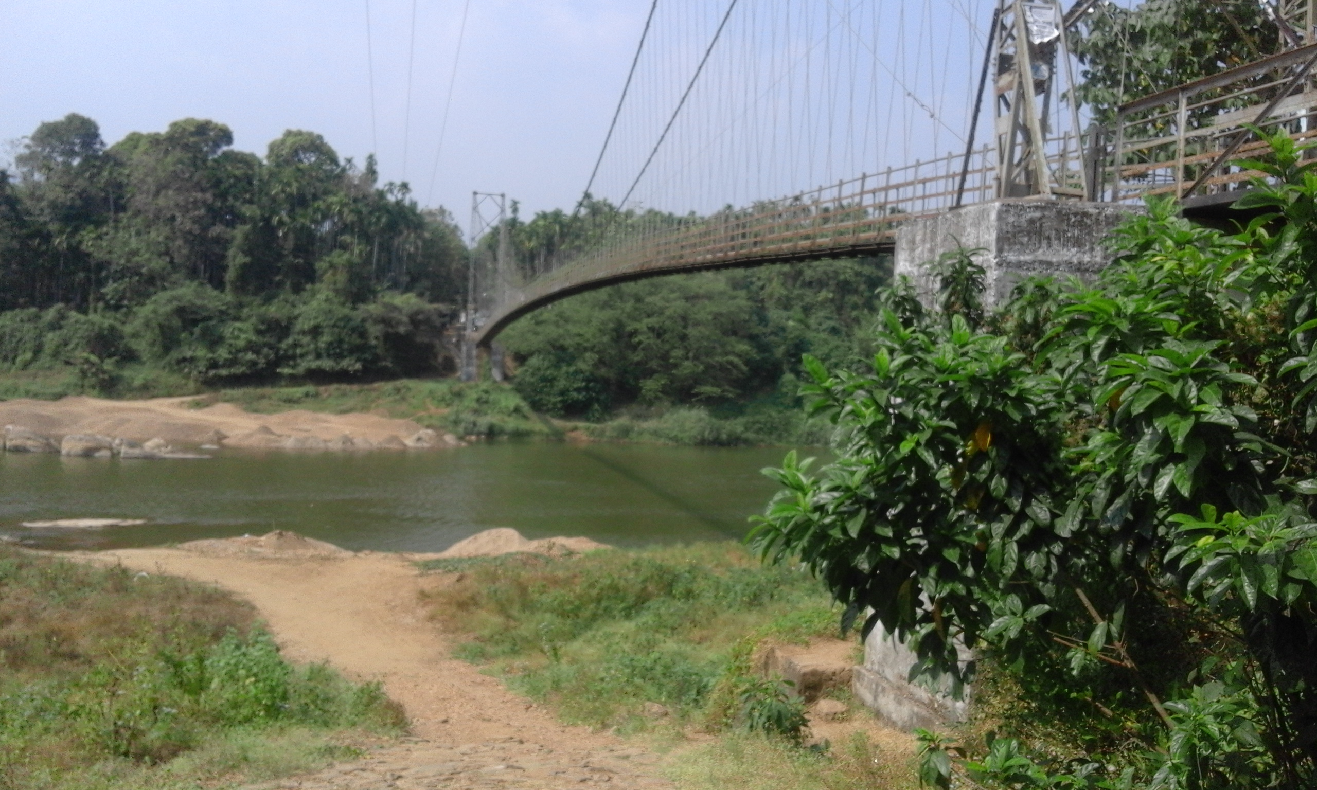 Nilambur, Kerala, India.